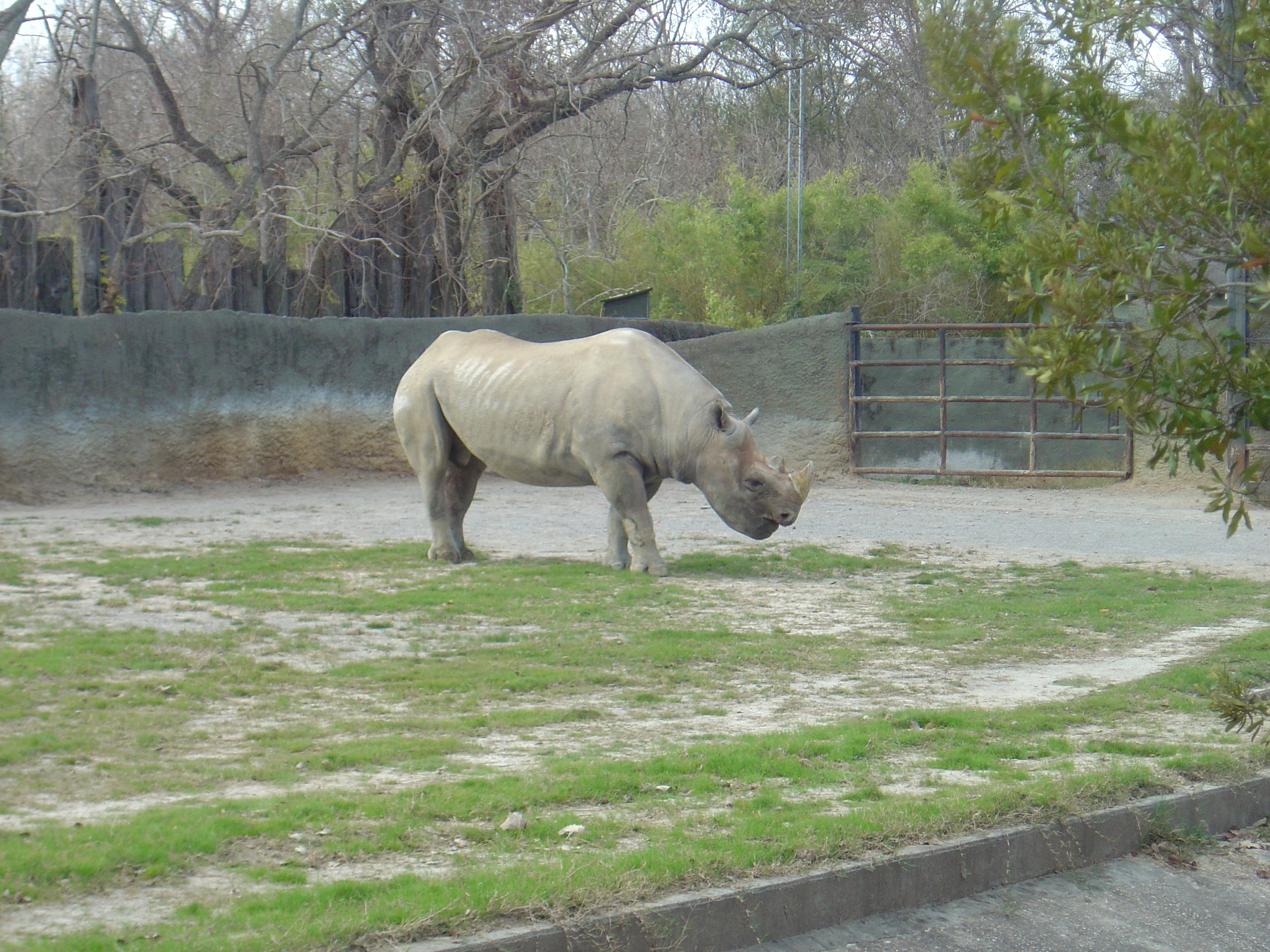 Rhinoceros at the Baton Rouge Zoo